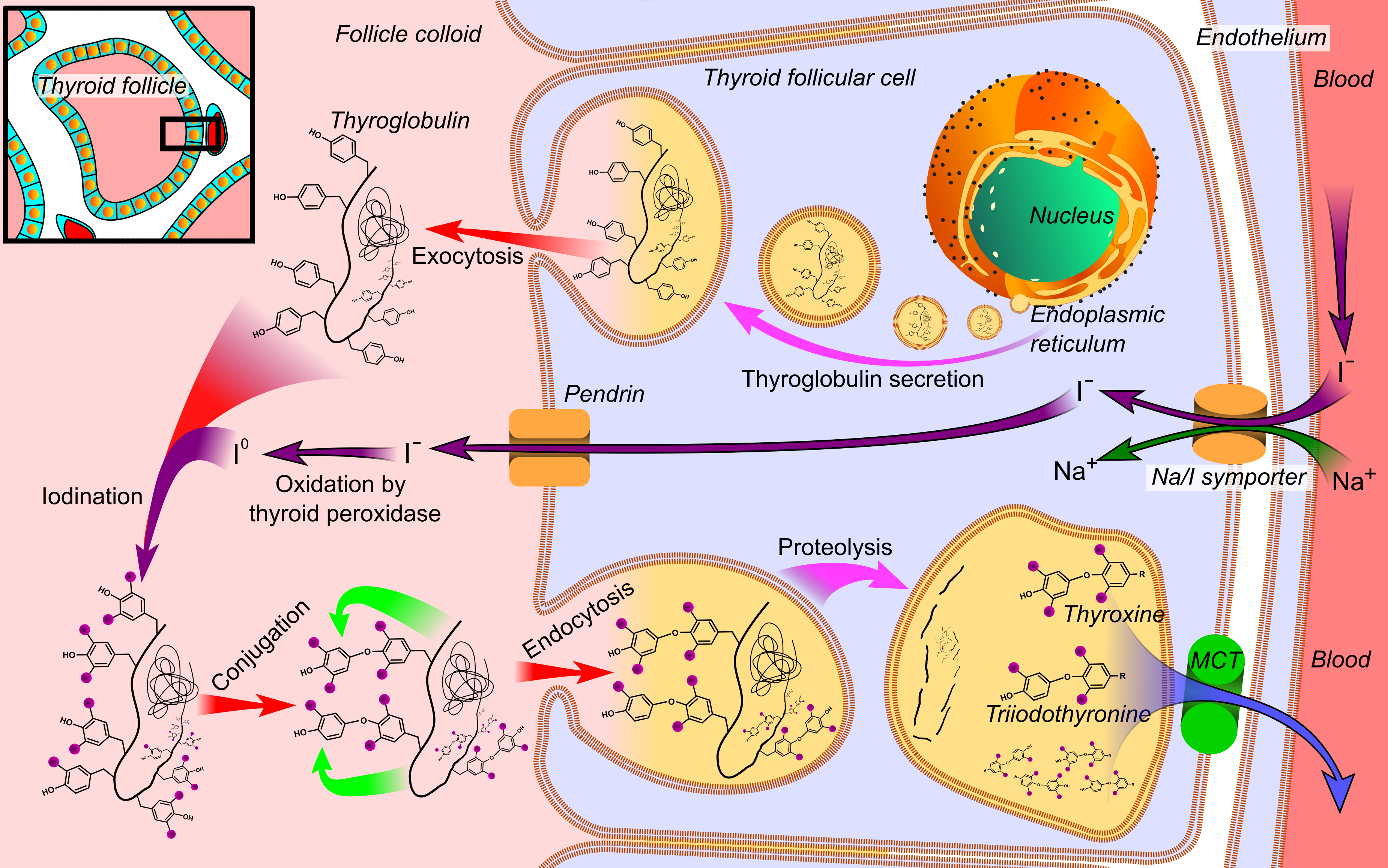 Synthesis of thyroid hormones. Reference: Chapter 48, "SYNTHESIS OF THYROID HORMONES" in: Walter F., PhD. Boron (2003) Medical Physiology: A Cellular And Molecular Approach, Elsevier/Saunders, pp. 1,300 ISBN: 1-4160-2328-3. Explanation Thyroglobulin is synthesized in the rough endoplasmic reticulum and follows the secretory pathway to enter the colloid in the lumen of the thyroid follicle by exocytosis. Meanwhile, a sodium-iodide (Na/I) symporter pumps iodide (I-) actively into the cell, which previously has crossed the endothelium by largely unknown mechanisms. This iodide enters the follicular lumen from the cytoplasm by the transporter pendrin, in a purportedly passive manner.[1] In the colloid, iodide (I-) is oxidized to iodine (I0) by an enzyme called thyroid peroxidase. Iodine (I0) is very reactive and iodinates the thyroglobulin at tyrosyl residues in its protein chain (in total containing approximately 120 tyrosyl residues). In conjugation, adjacent tyrosyl residues are paired together. The entire complex re-enters the follicular cell by endocytosis. Proteolysis by various proteases liberates thyroxine and triiodothyronine molecules, which enter the blood by largely unknown mechanisms. Additional references for details ↑ How Iodide Reaches its Site of Utilisation in the Thyroid Gland – Involvement of Solute Carrier 26A4 (Pendrin) and Solute Carrier 5A8 (Apical Iodide Transporter) - a report by Bernard A Rousset. Touch Brieflings 2007